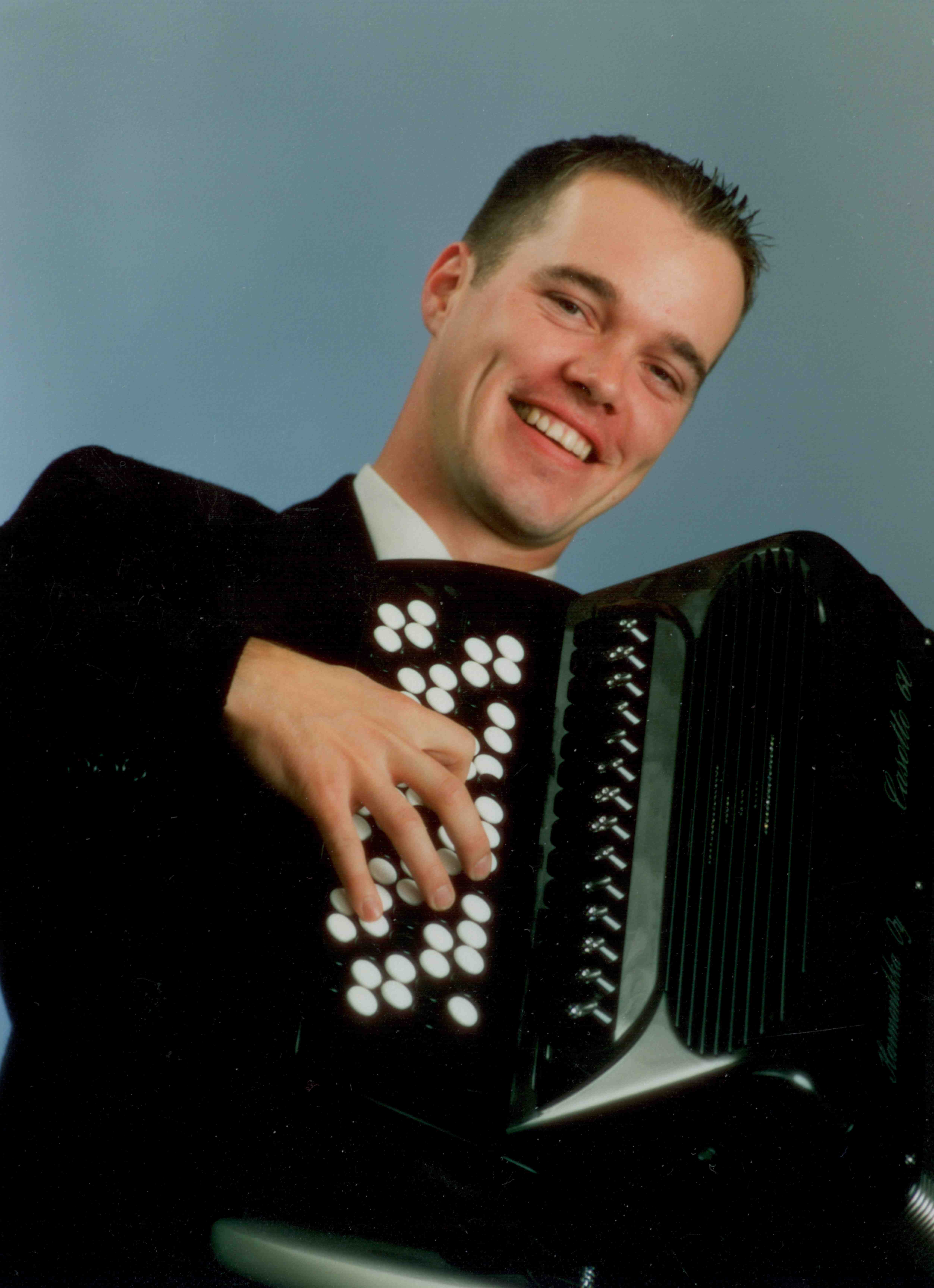 accordion open smile